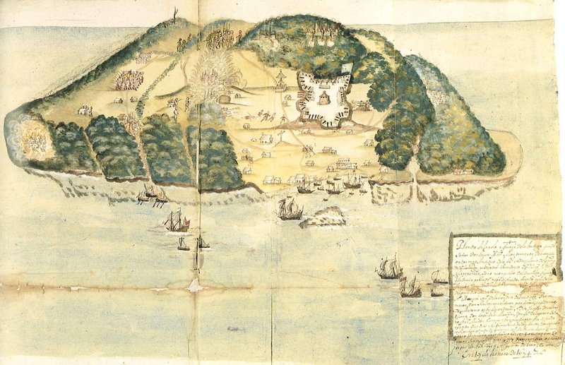 Drawing of Tortuga island during "Brother of the Coast" period, 17th century